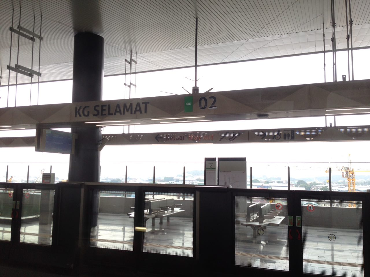 MRT SBK02 Kampung Selamat station